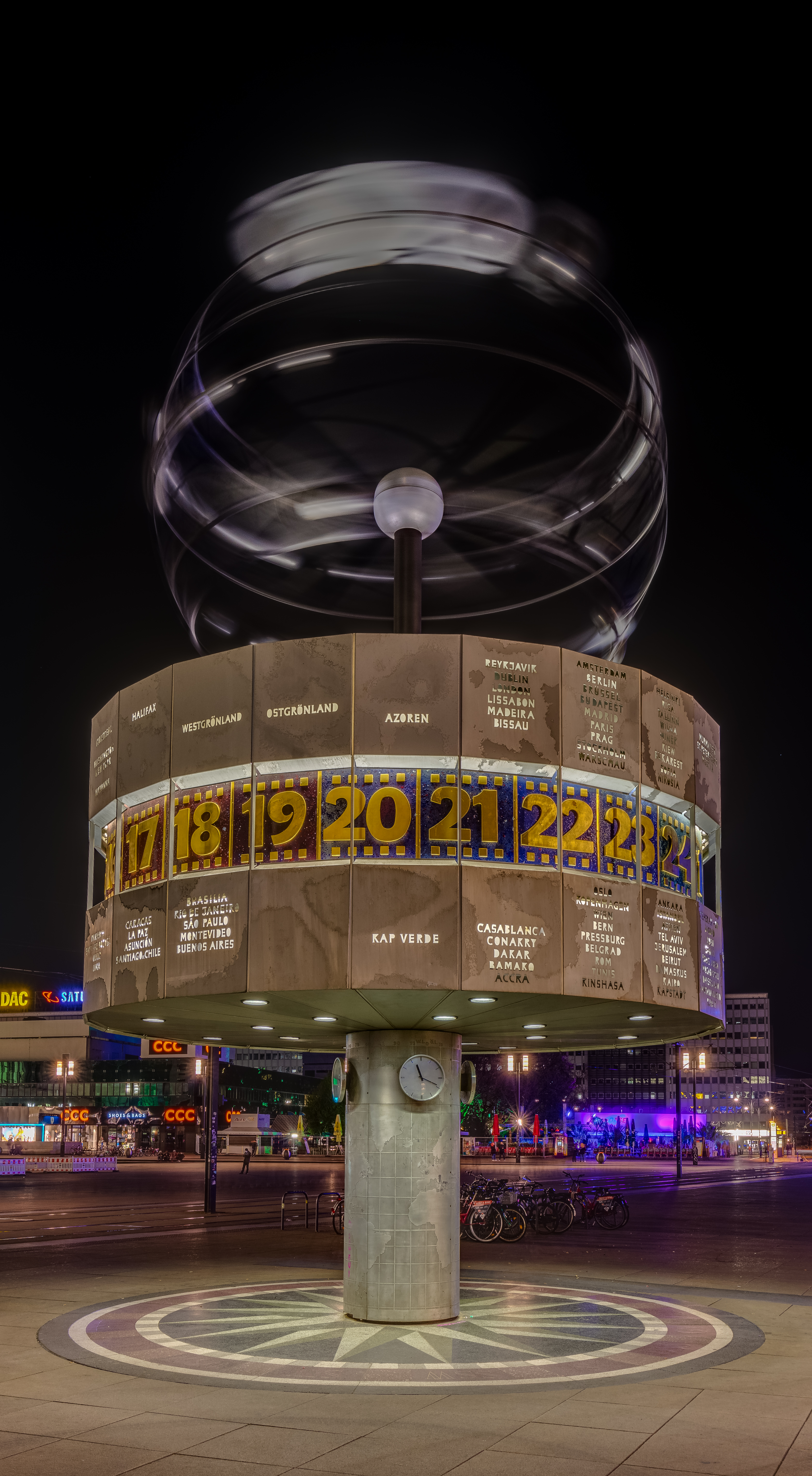 World clock, Berlin, Germany